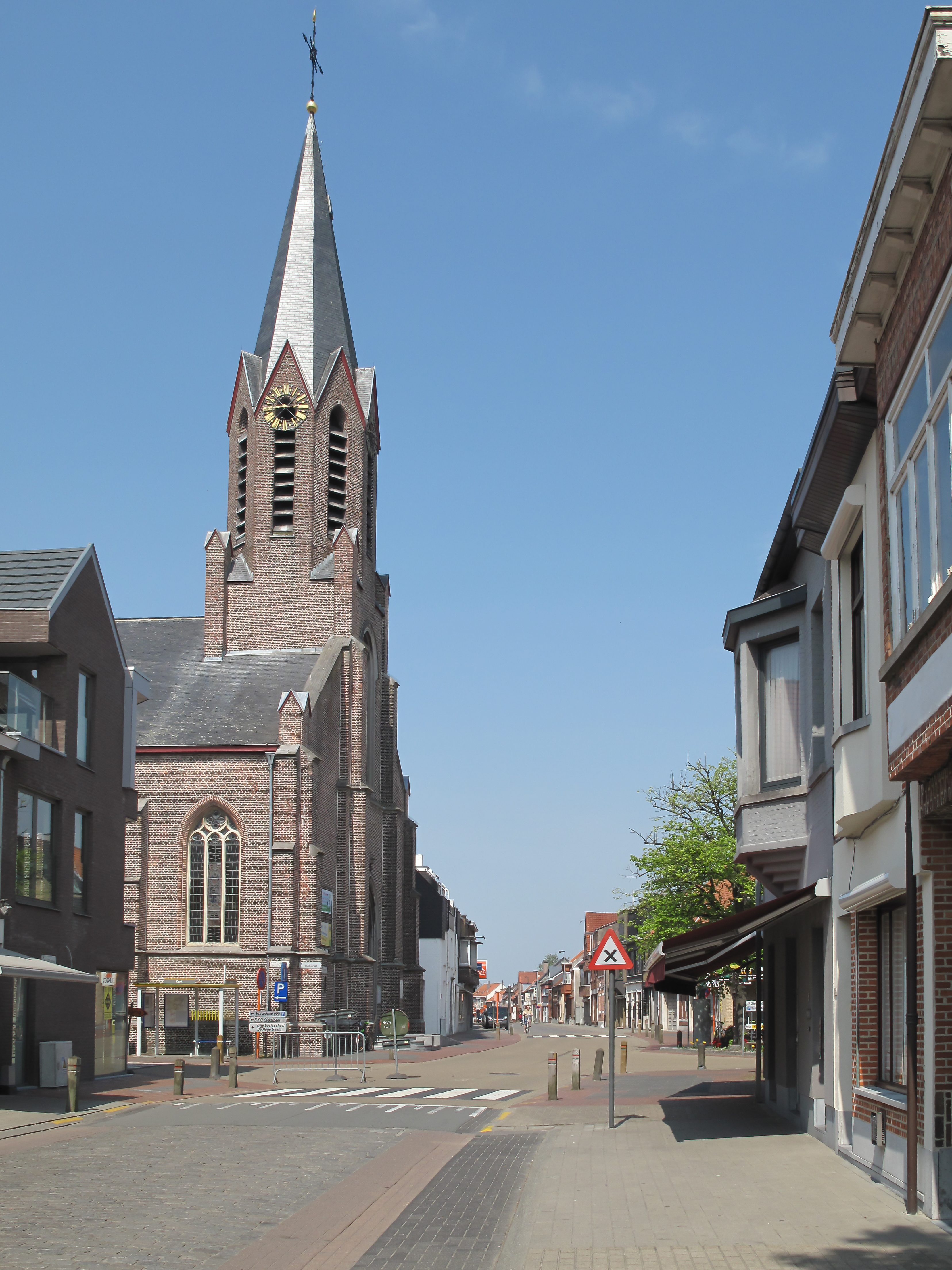 De Klinge, church (parochiekerk Onze Lieve Vrouwe Hemelvaart) in the street